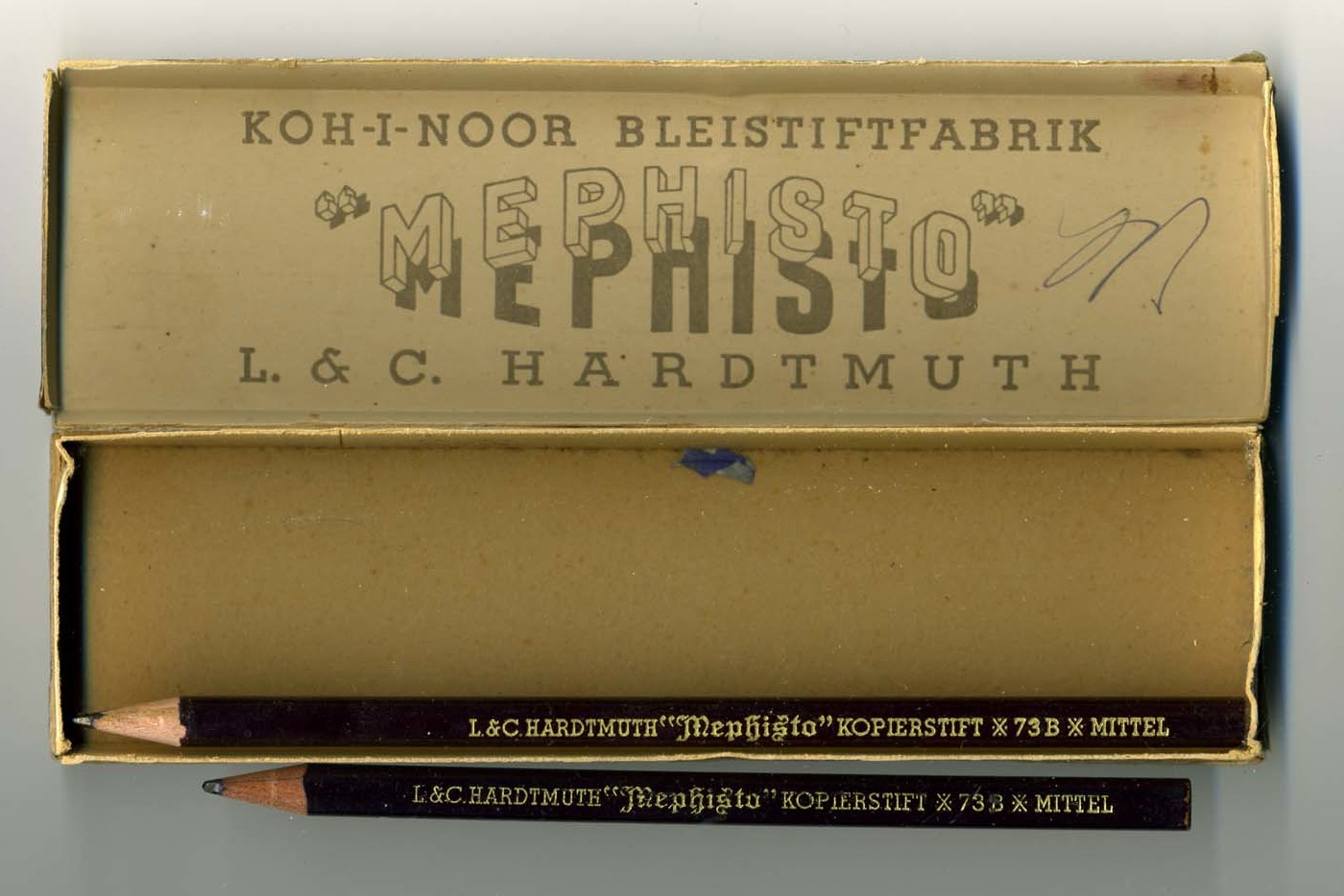 Pencil box with pencils type "Mephisto" of the pencil factory L&C Hardtmuth at Budweis (Bohemia) Year of production about 1900